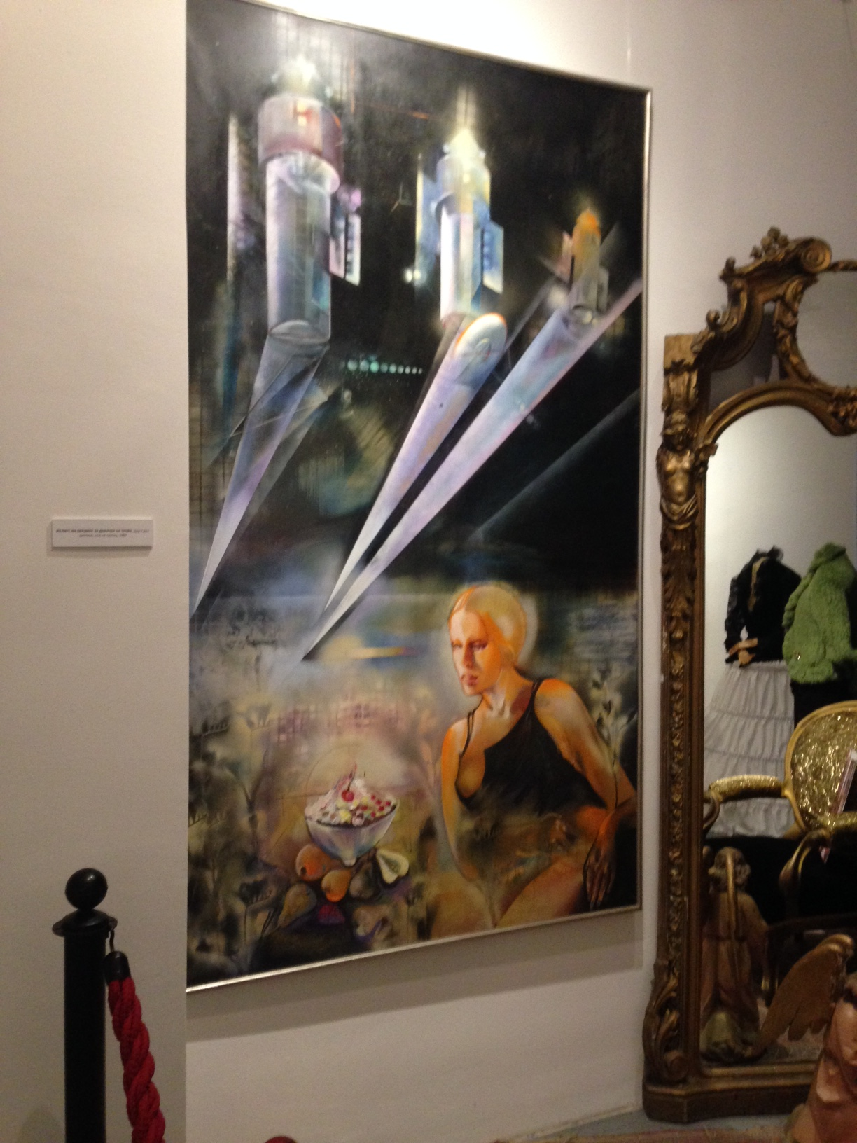 Legacy Olja Ivanjicki, Serbia